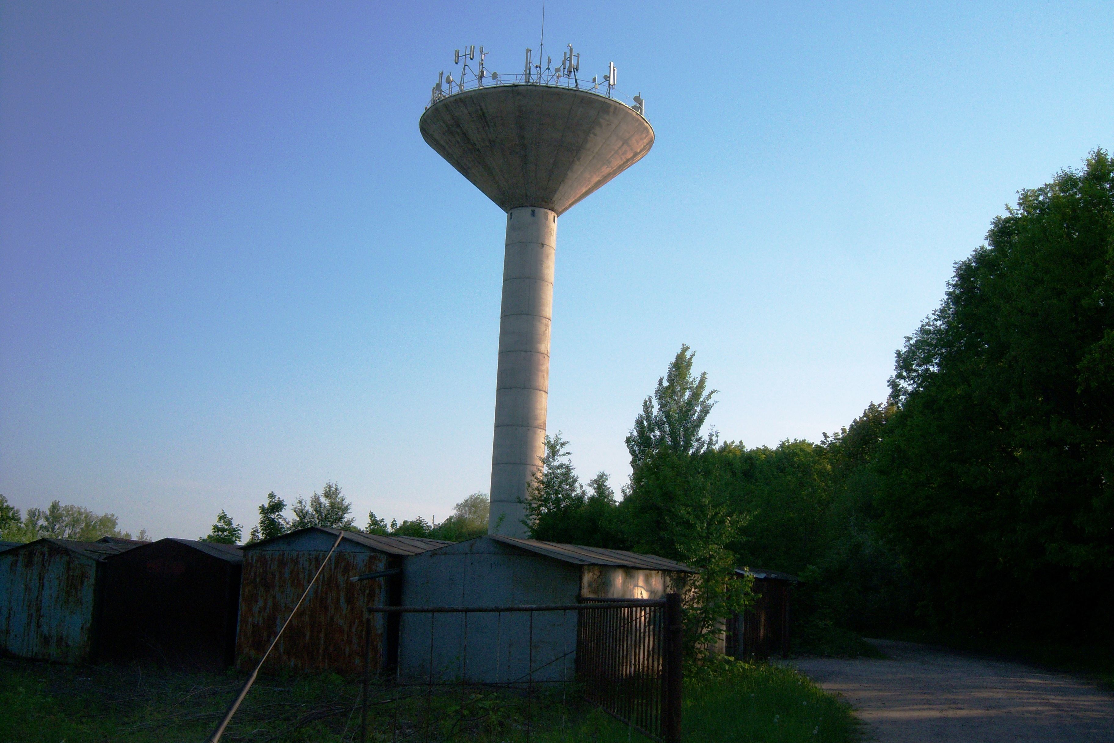 Akademijos water tower, Kaunas Lithuania.